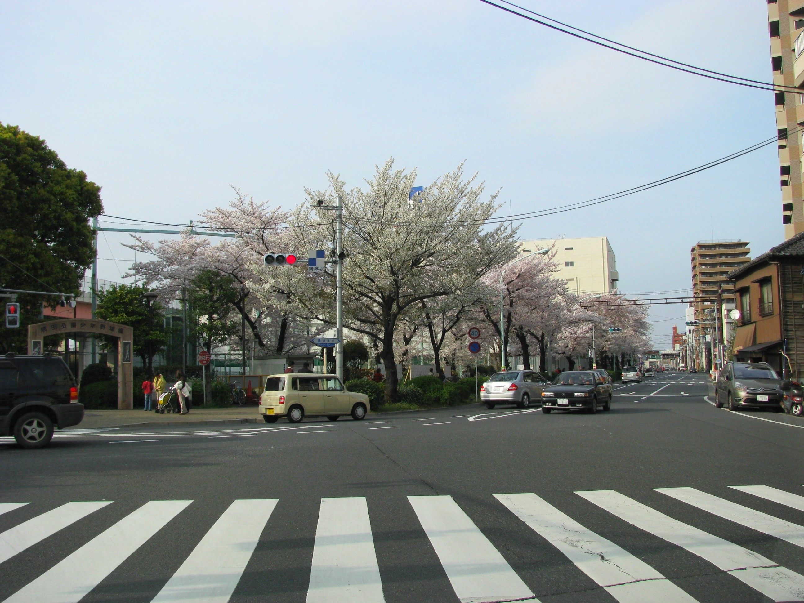 The Tokyo Prefectural Route 461. This located is Mukōjima in Sumida, Tokyo, Japan.